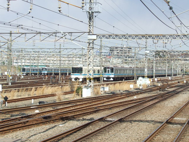 Ebina Inspection Depot, Odakyu Electric Railway